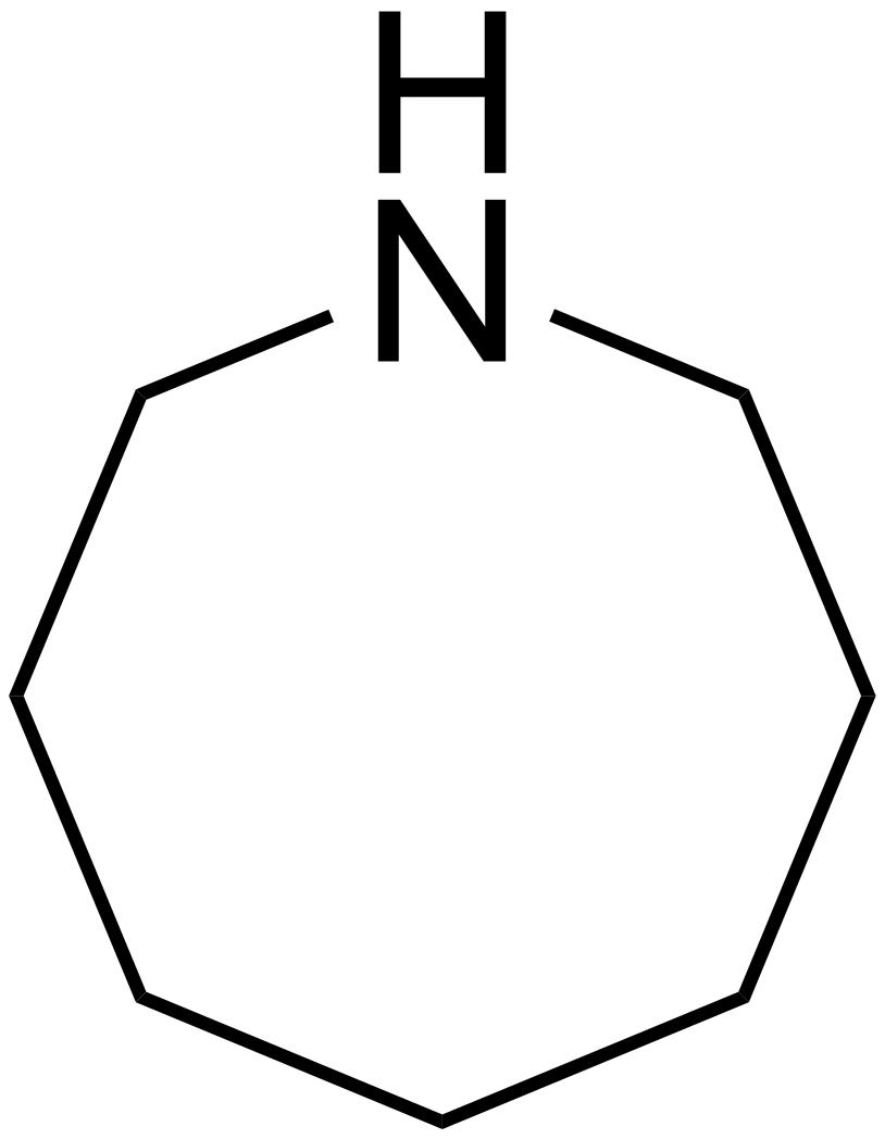 chemical structure of azocane (azacyclooctane, perhydroazocine, heptamethyleneimine)